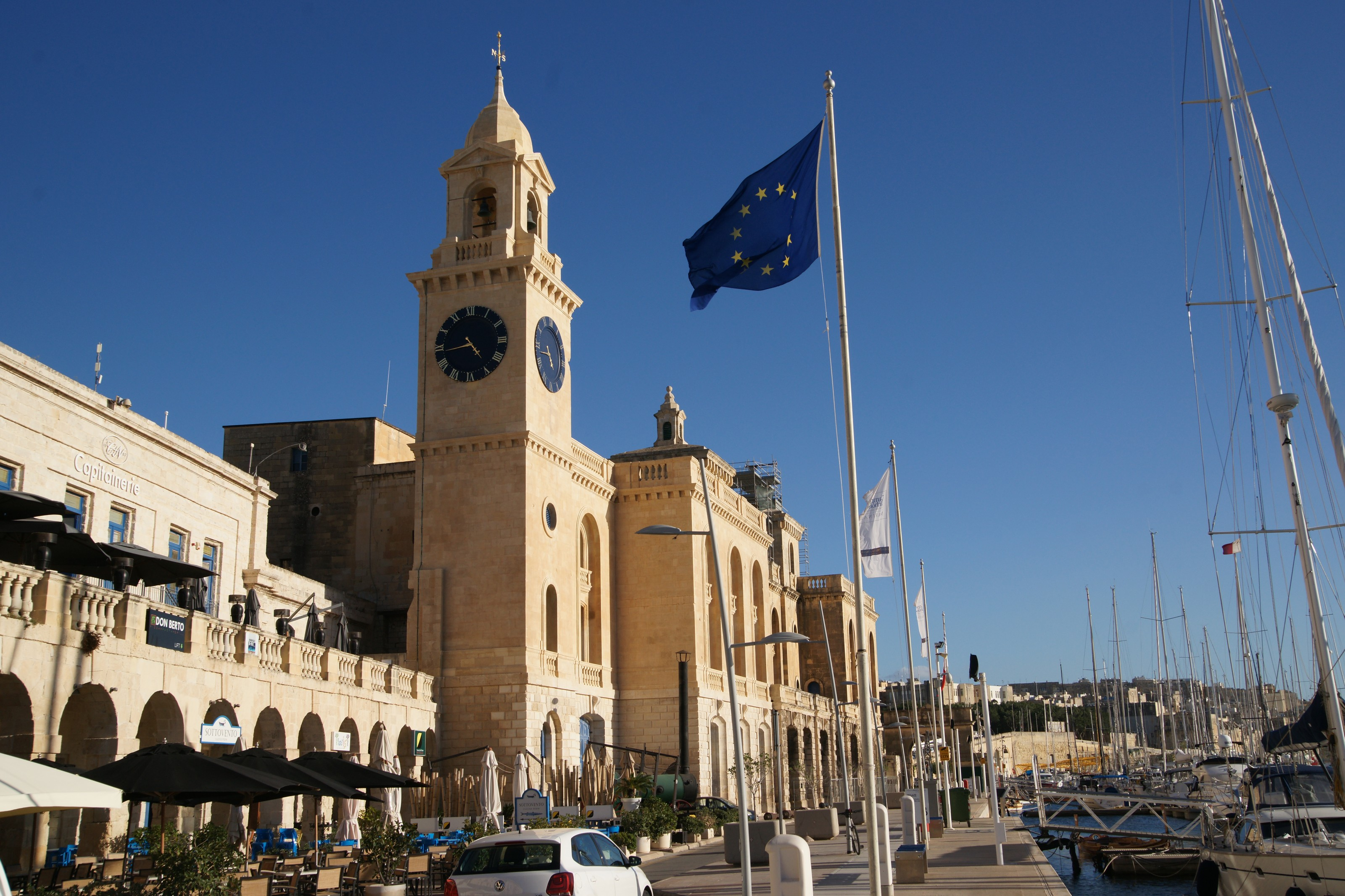 Birgu (Vittoriosa): Seafront with Maritime Museum